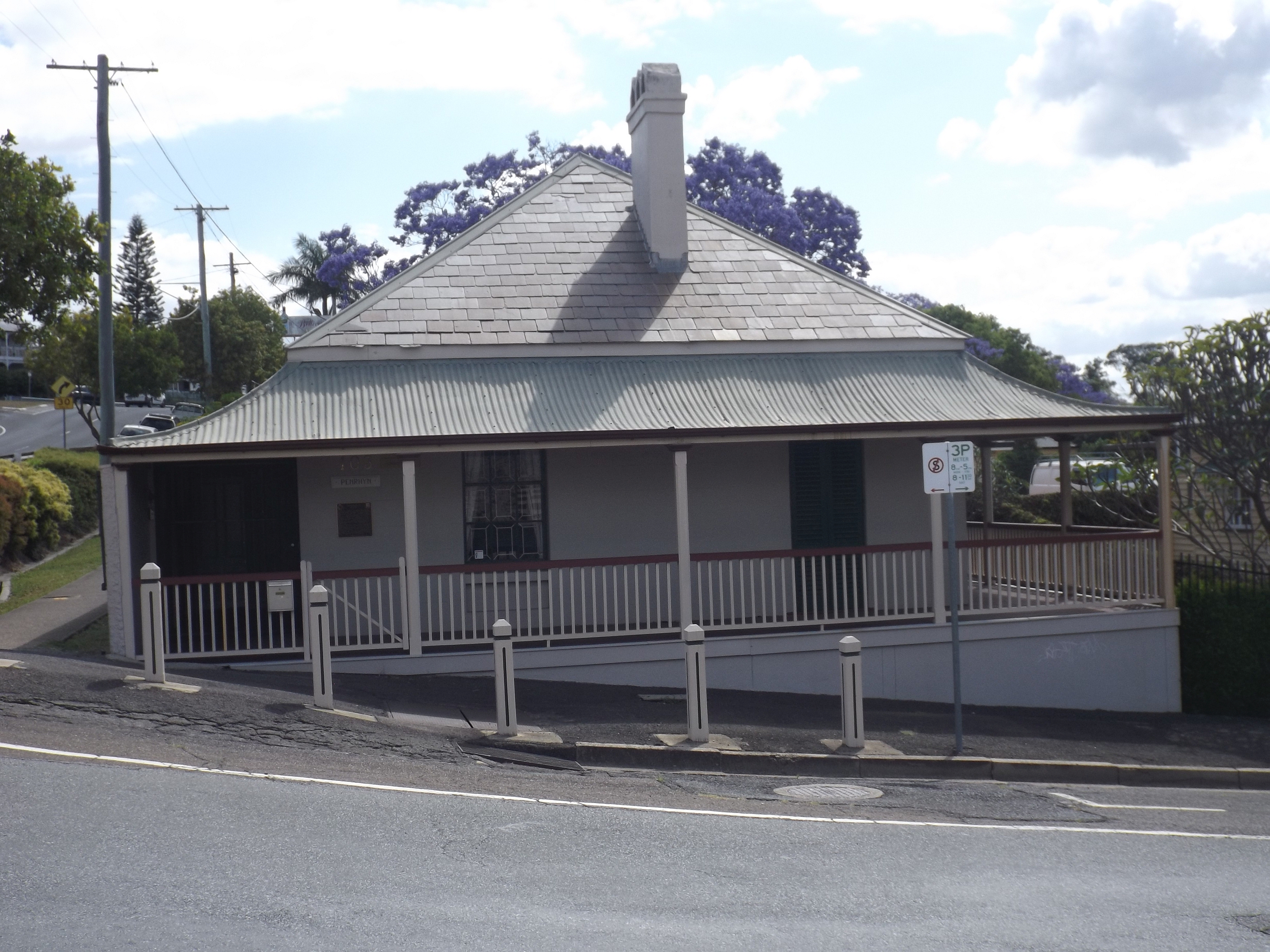 Photo of the Penrhyn residence at Ipswich, Queensland, Australia.